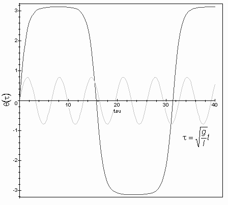 Oscillation of a pendulum, for "big" oscilations (amplitude = , black) and for "small" oscillations (amplitude = , grey).